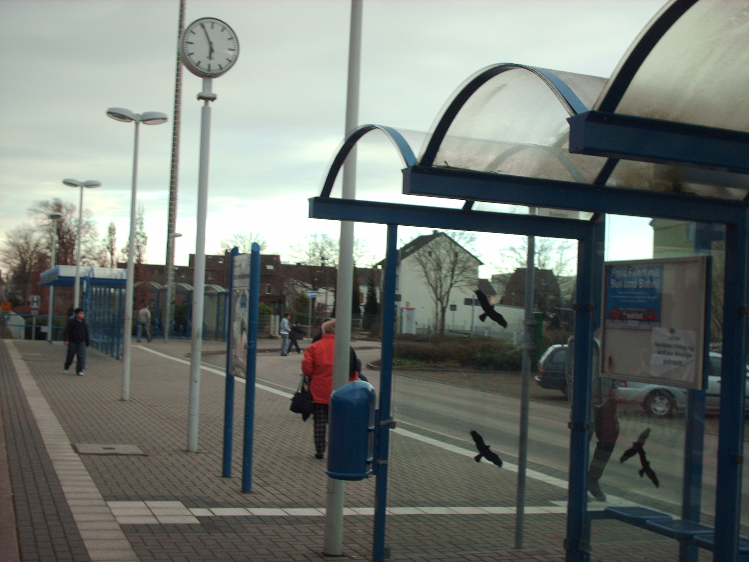 Huchem-Stammeln station, Niederzier, Germany check usage